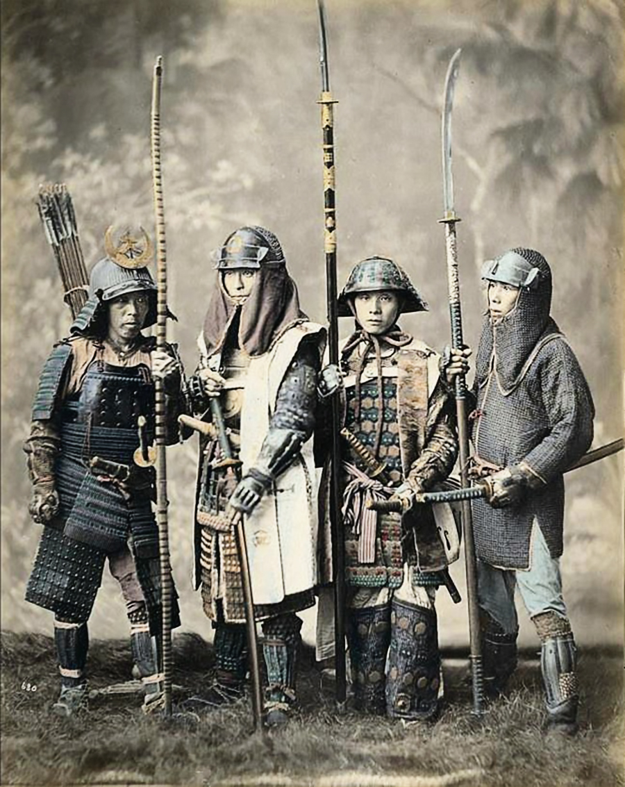 Samurai with bow and arrow, helmets, swords, spears and coats of mail (kusari), kikko armor, hachi gane and chochin kabuto. Photo from series of 42 hand coloured albumine prints at Spaarnestad Photo by Felice Beato, Kusakabe Kimbei or Raimund baron von Stillfried. Japan, around 1880.